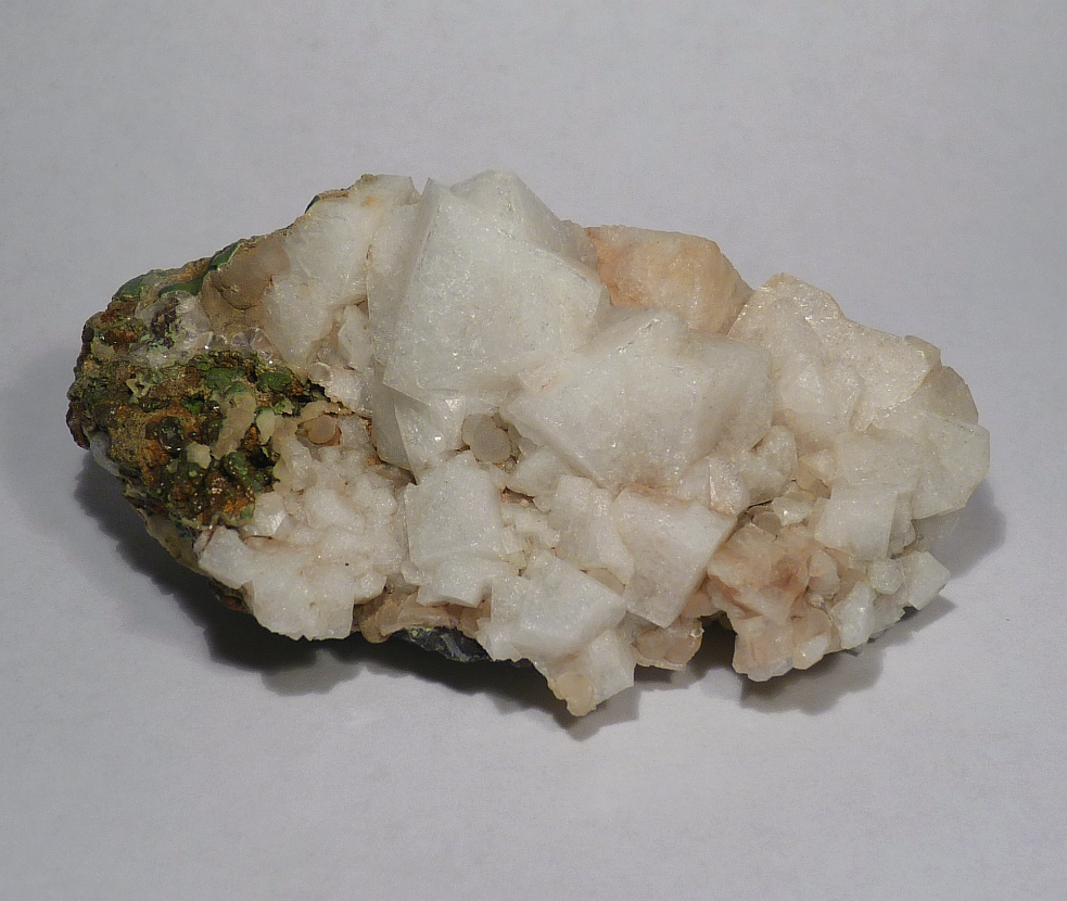 Chabazite Locality: Lambareiđi, Eysturoy Island, Faroe Islands, Denmark Specimen size 8 x 4 cm. Collected in 1977